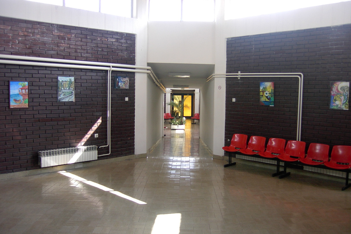 Elementary music school in Kocani (entrance)